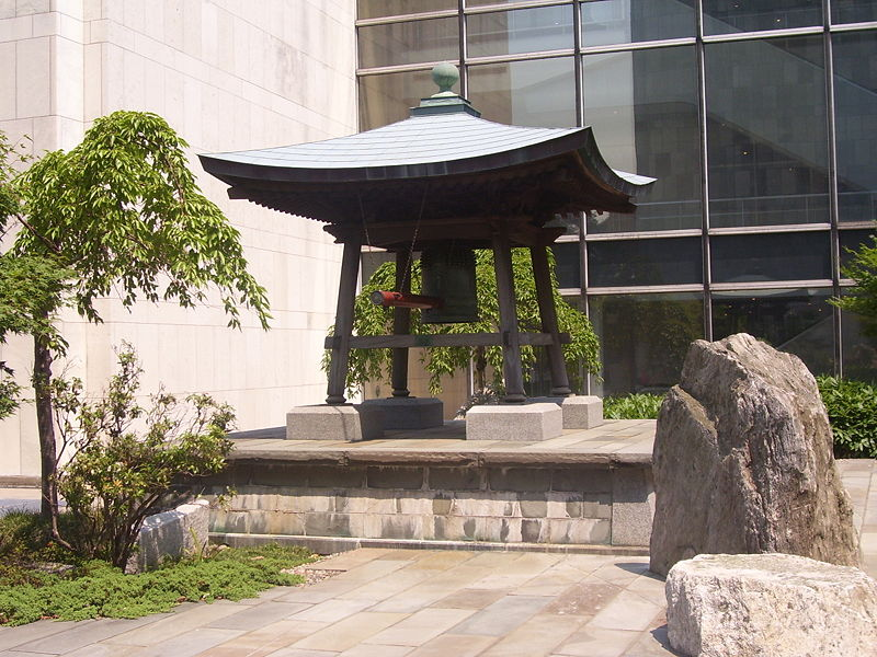 The Japanese Peace Bell and its pagoda at United Nations Headquarters, New York City. Photograph credit: Dragonbite.